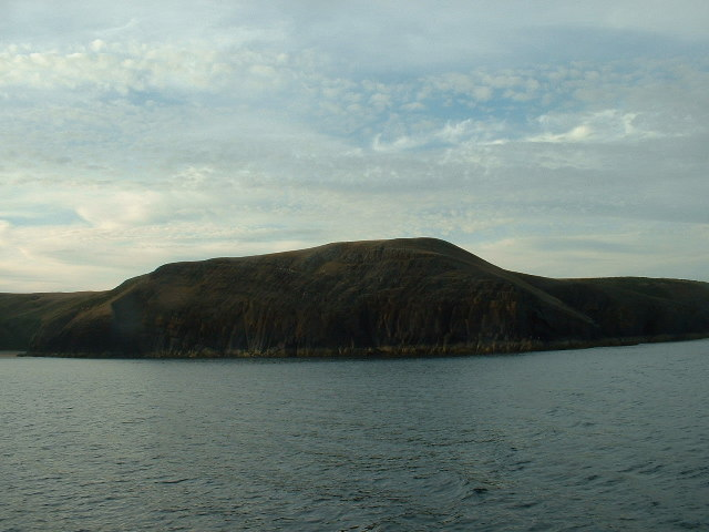 Trwyn yr Wylfa. This is the headland at the eastern end of the small Lleyn bay of Porth Ceiriad